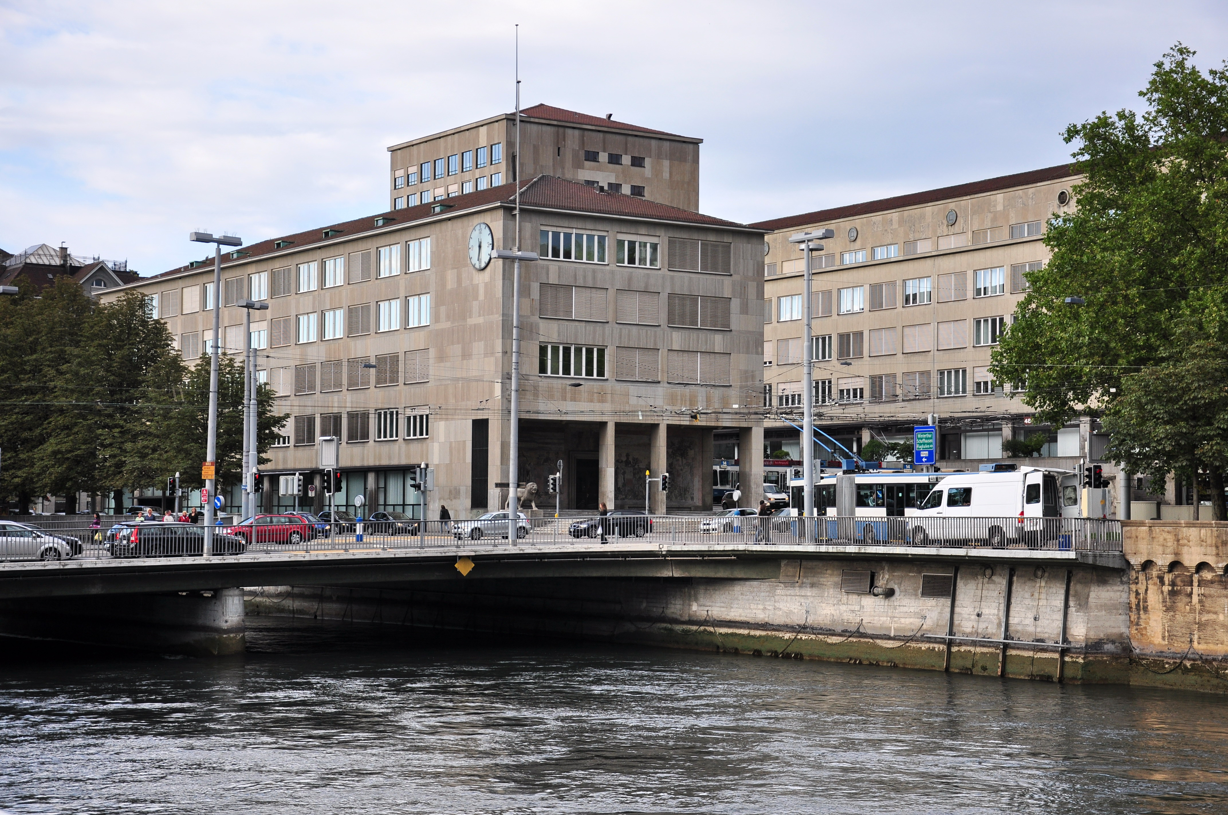 Walchebrücke and buildings of the cantonal administration as seen from Bahnhofquai in Zürich (Switzerland)